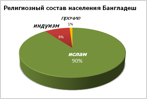 Pie chart showing the distribution of religions in Bangladesh. Russians